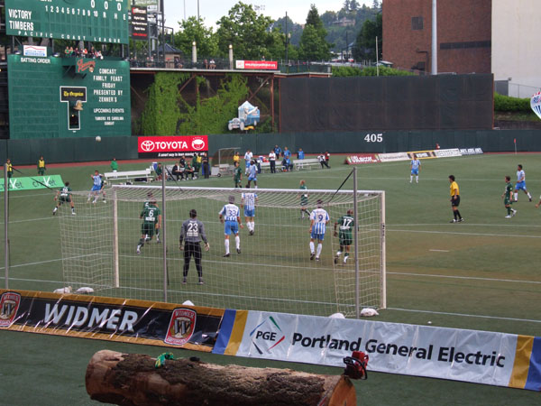 25th of May 2007. A nice game against the California Victory which of course the Timbers won.